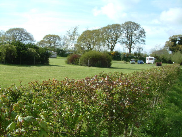 Caravan Site, Monckton Wyld. We were staying on this Camping and Caravanning Club site which is kept to a very high standard.